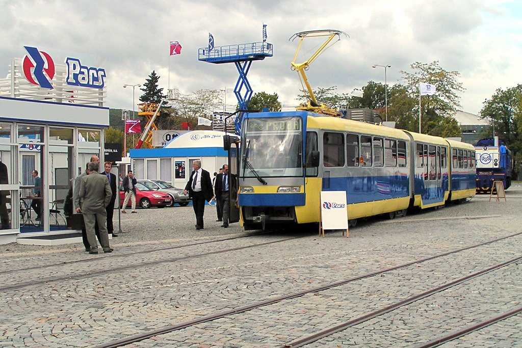 SATRA III tram on international fair in Brno, Czech Republic